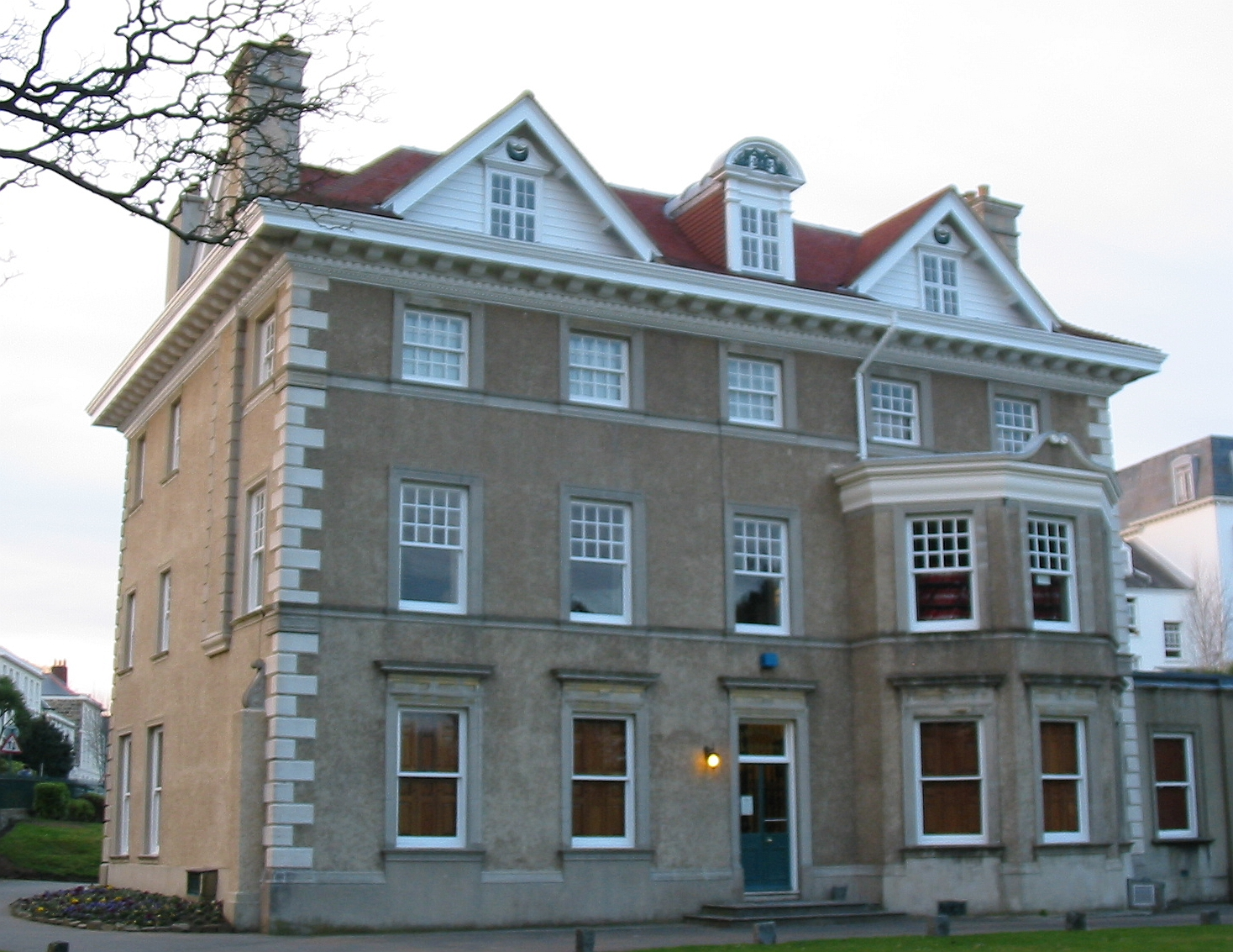 Saint Peter Port, Guernsey